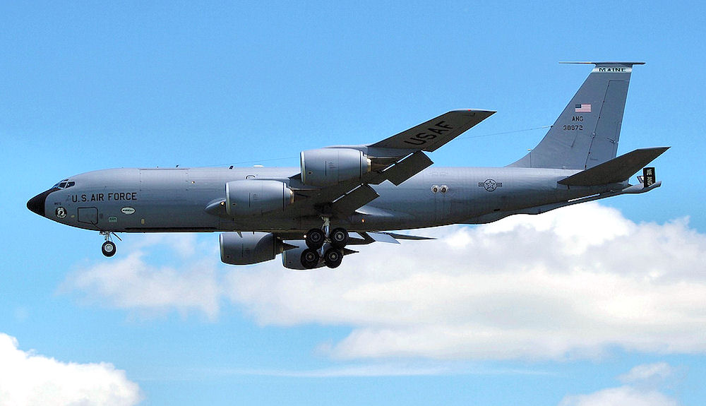 132d Air Refueling Squadron - Boeing KC-135A-BN Stratotanker 63-8872